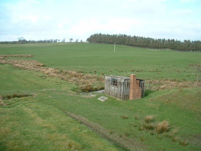 The hut lingers on...... ....though the railway has long since gone.